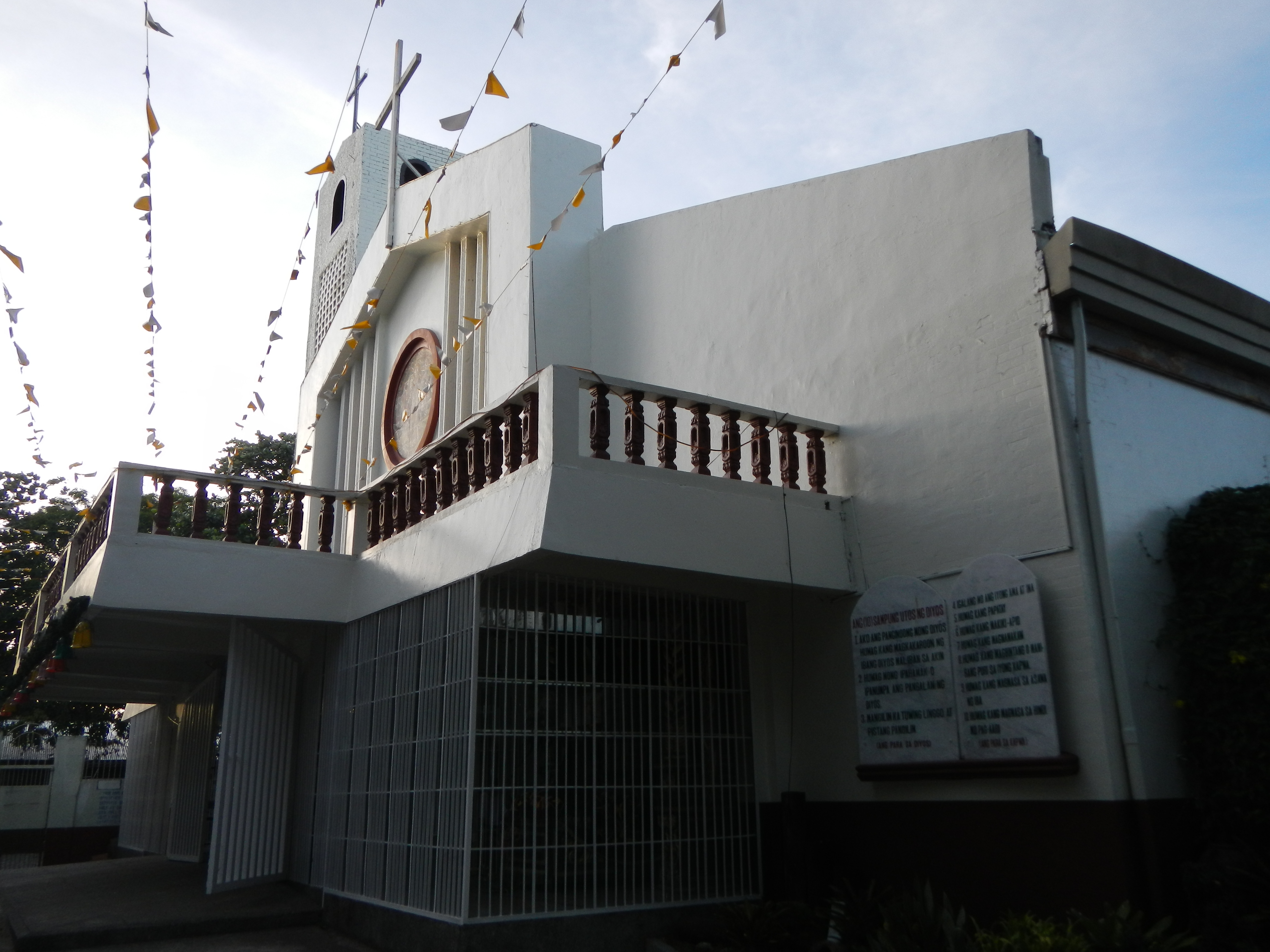 1896 St. Dominic Parish Church, Real St., Poblacion, Sto. Domingo, 3133 Nueva Ecija -[1] Roman Catholic Diocese of San Jose in the Philippines[2]Most. Rev. Roberto Calara Mallari, D.D. (since 15 May 2012), Parish Priest, 19. Fr. Edwin I. Bravo, Vicariate of St. Dominic[3] (Diocesis Sancti Josephi in Insulis Philippinis) Suffragan of Lingayen-Dagupan (Created: February 16, 1984. Erected: July 14, 1984. Comprises the City of San Jose and the Science City of Muñoz and 12 other municipalities in Northern Nueva Ecija. Titular: St. Joseph the Worker, May 1)[4] Vicariate of St. Dominic[5] Vicar Forane:Fr. Bonifacio P. Flores Saint Dominic Parish Titular: Saint Dominic de Guzman Year of Establishment: 1929